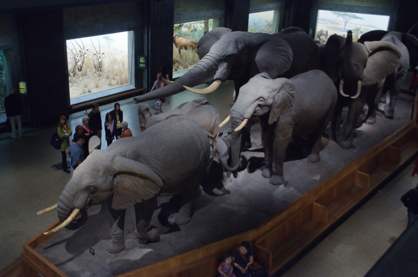 The centerpiece of the African Hall is this diorama of an elephant herd. American Museum of Natural History is the largest museum of its kind, and alongside the Metropolitan Museum of Art, represents the ultimate in New York City museum experience.